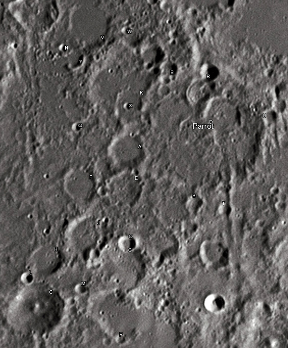 Parrot lunar crater as seen from Earth with satellite craters labeled